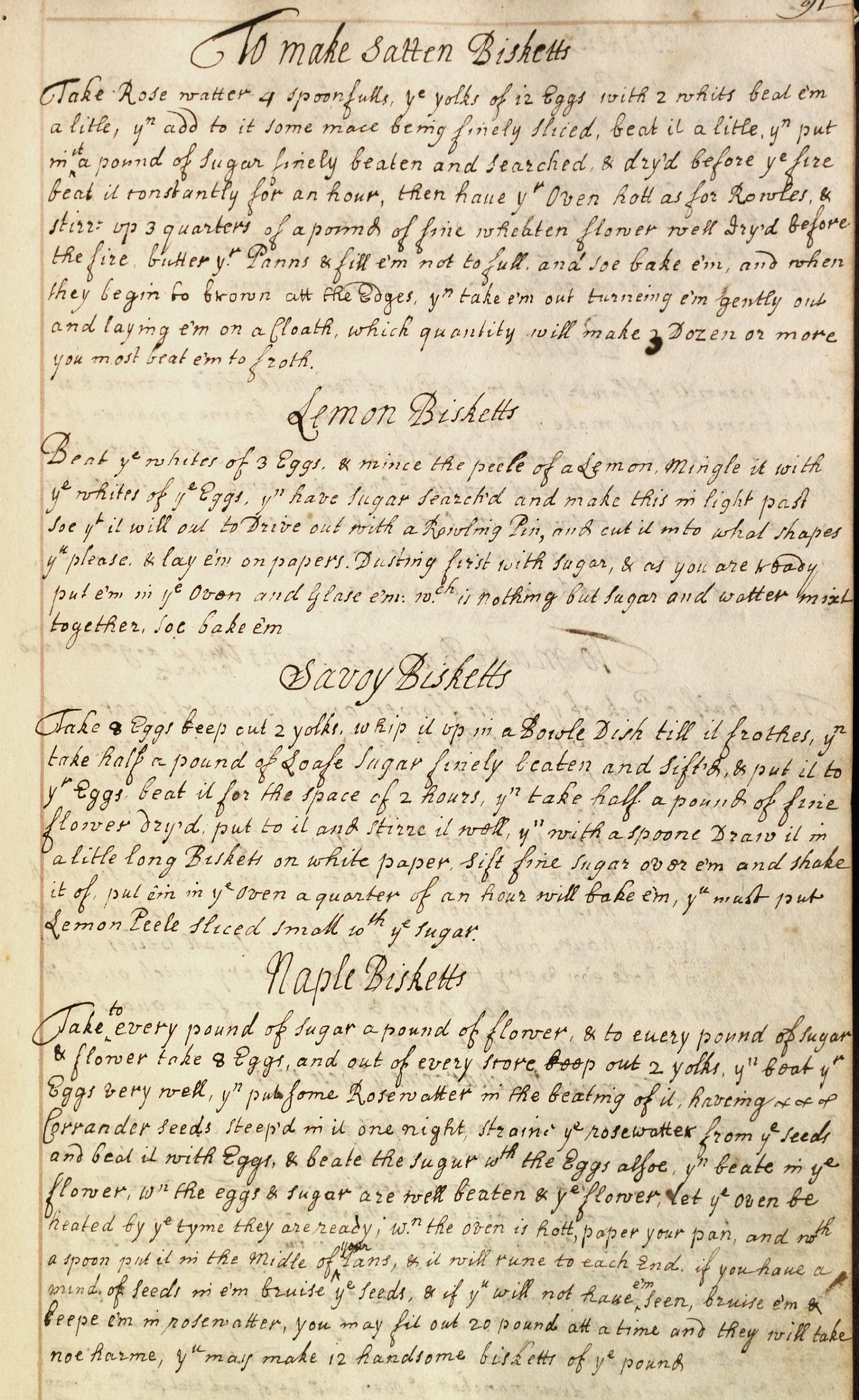 A volume of cooking and medicinal recipes collected by Merryell Williams of the Ystumcolwyn Estate, Montgomeryshire, towards the end of the 17th century and beginning of the 18th century.